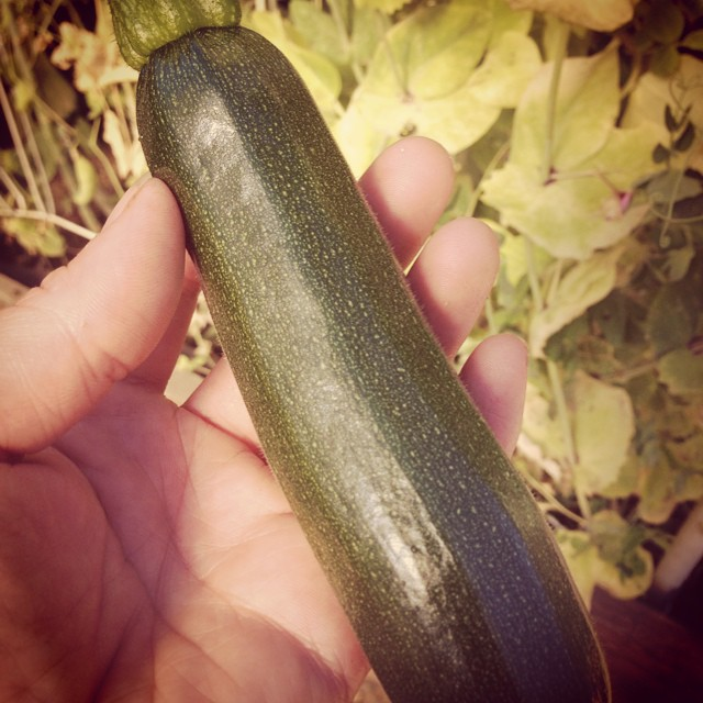 First #Zucchini of the season, aka, the squash scout. This means the zuke invasion is not far behind.